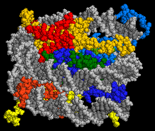 Nucleosome core particle, crystal structure (PDB ID: 1EQZ).This image was created with RasTop (Molecular Visualization Software) and Adobe Photoshop Elements.